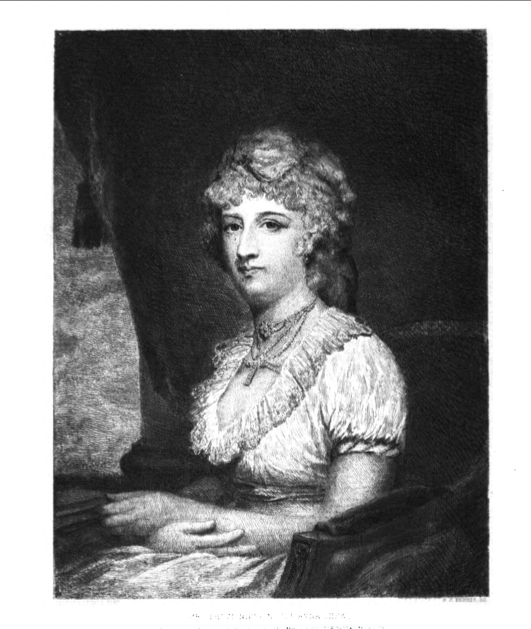 Mrs Nicklin, etching by Stephen James Ferris from a c. 1795 Gilbert Stewart painting, when Mrs. Nicklin was about 30 years of age. "Mrs. Philip Nicklin (nee Julianna Chew), was the daughter of Chief Justice Benjamin Chew and Elizabeth Oswald Chew. Julianna Chew was baptized on the 20th of June 1765. Julianna Married Philip NIcklin on April 1793. "Featured in Koehler's "American Art Review" and in the Boston exhibition of 1881 was the portrait of Mrs. Philip Nicklin dated 1879, after a painting by Gilbert Stuart. It illustrated an article on historical portraiture by Charles Henry Hart, who commented that the etching was a 'beautiful portrait ... etched from the original. The lady represented was one of Philadelphia's beauties ... Julianna died on the eleventh of August 1845."[1] ↑ Stephen James Ferris - Mrs. Philip Nicklin